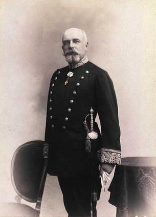 Danish landowner and politician Oscar Brun (1851-1921)